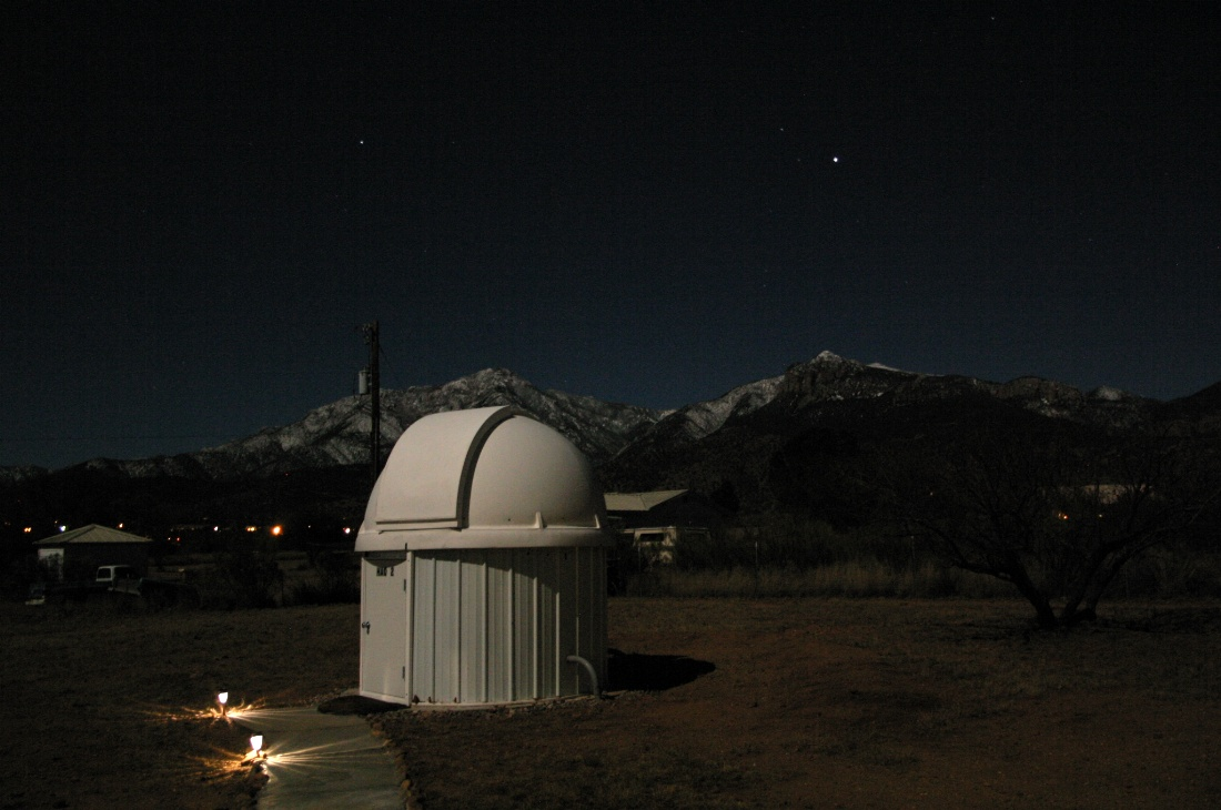 Hereford Arizona Observatory - 20091201 HAO#2, illuminated by a full moon, with Venus setting above mountains with snow-covered peaks at 9500 feet.